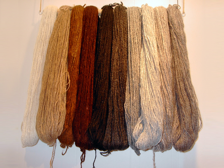 Alpaca-wool.